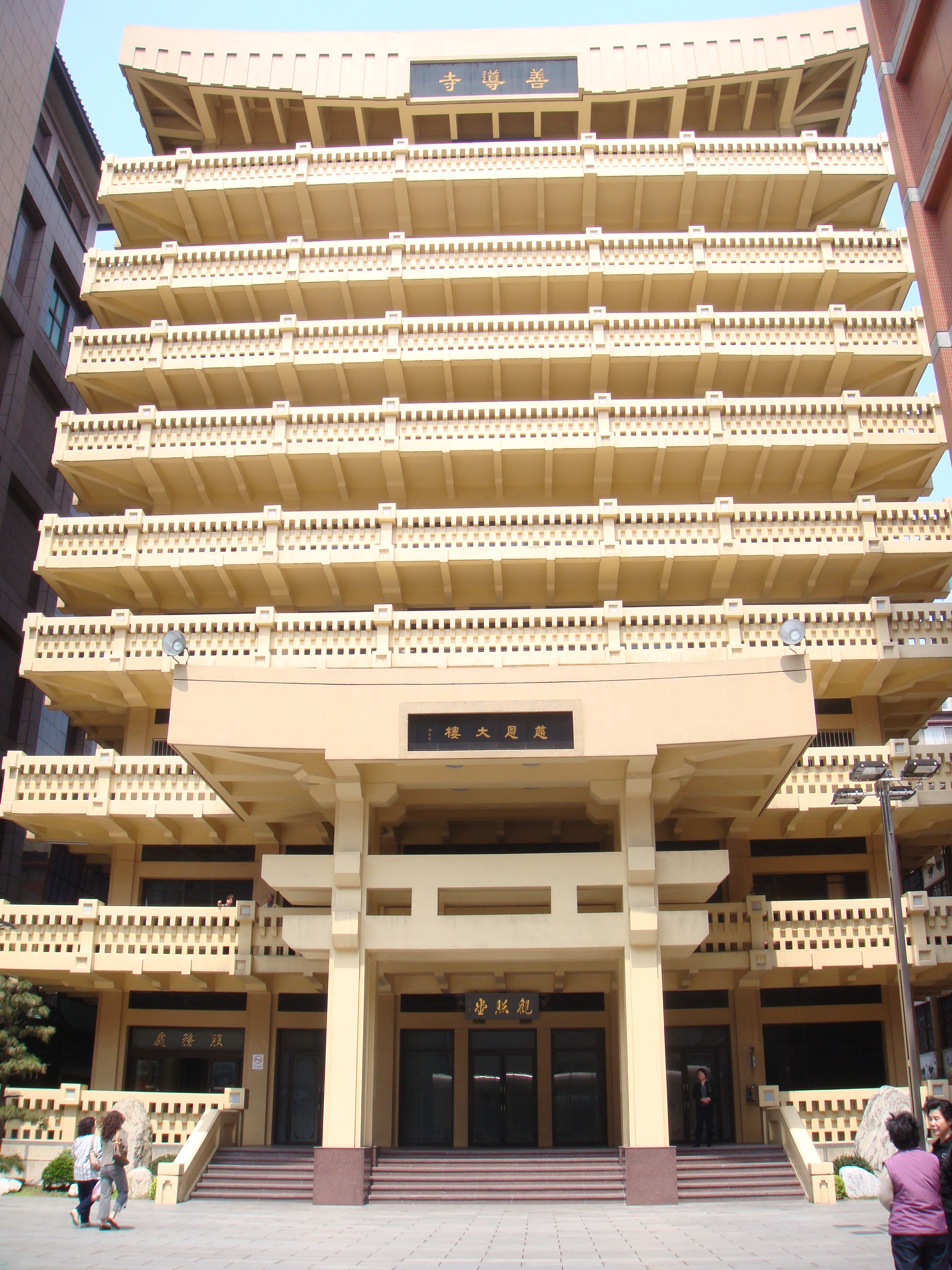 Ci En Building, Shandao Temple.